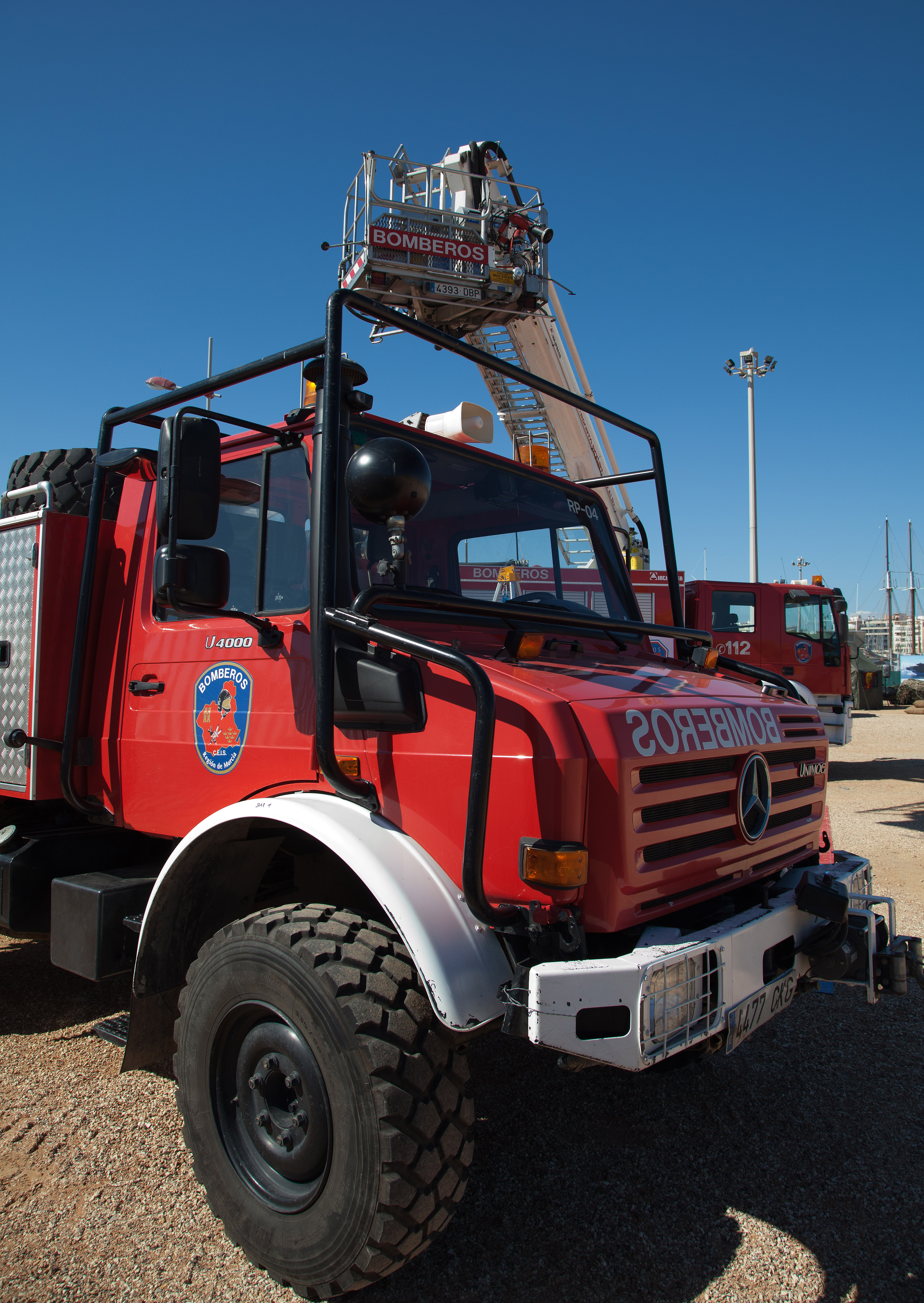 Unimog-based fire engine in Spain.